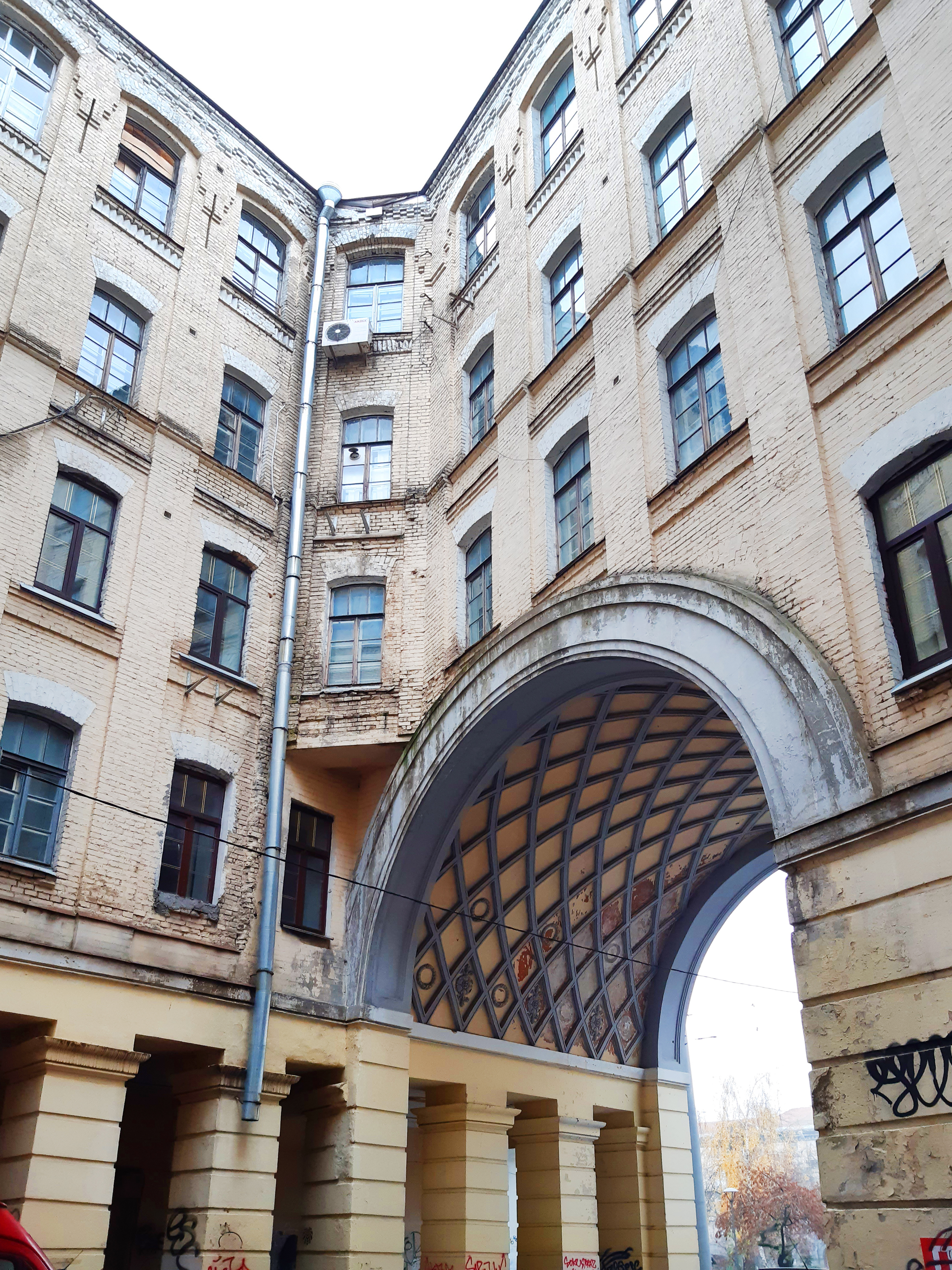 Survived part of the former pawnshop (1907-1909)